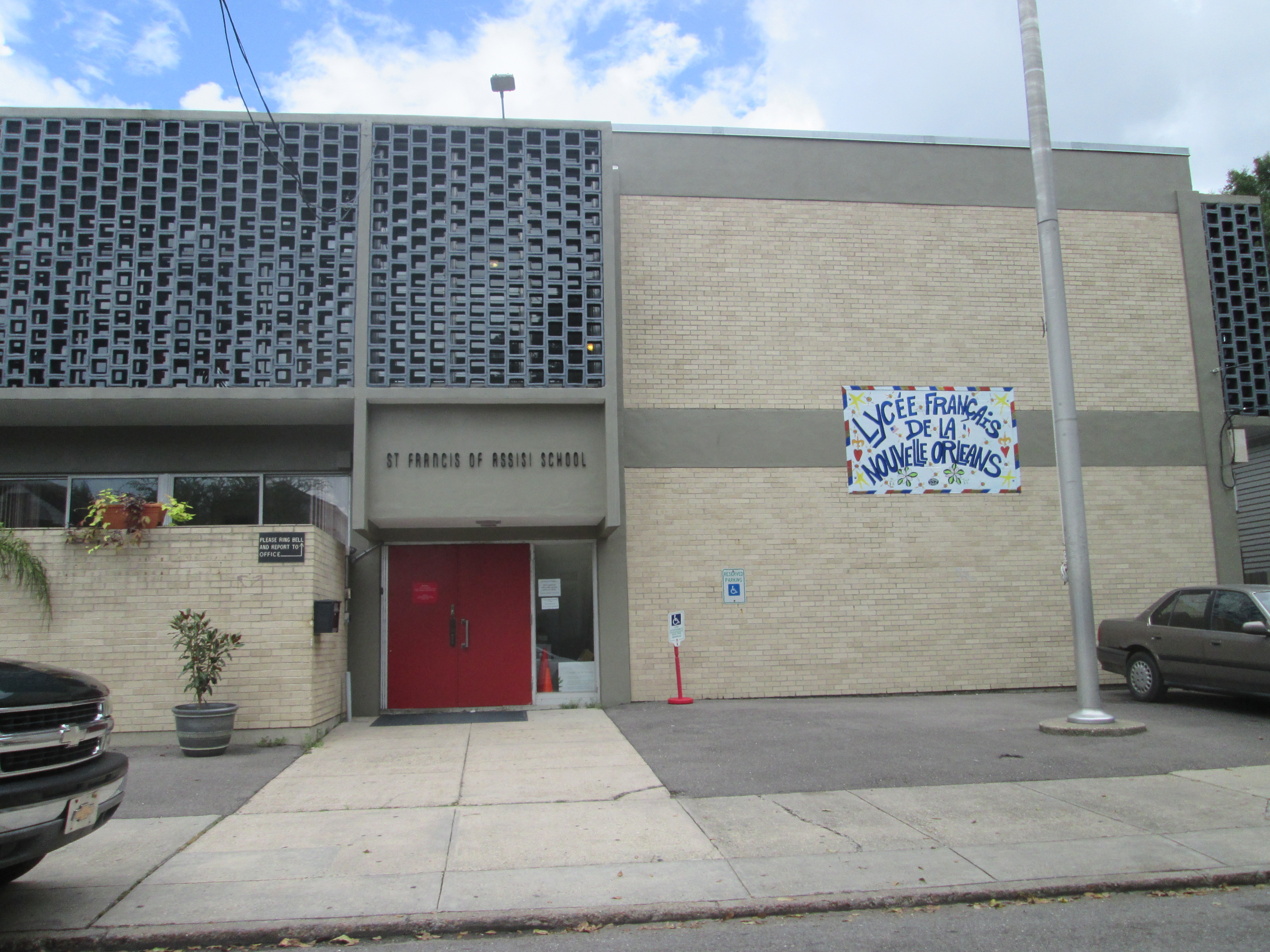 Lycee Francais, Uptown New Orleans.